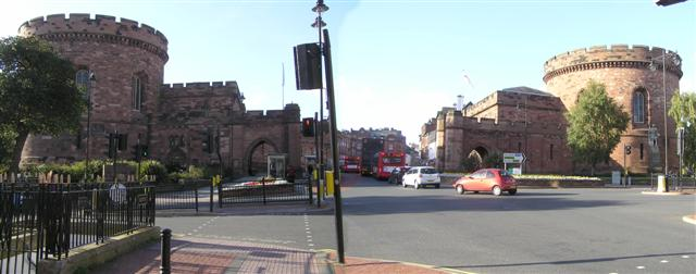 The Citadel, Carlisle Looking NNW